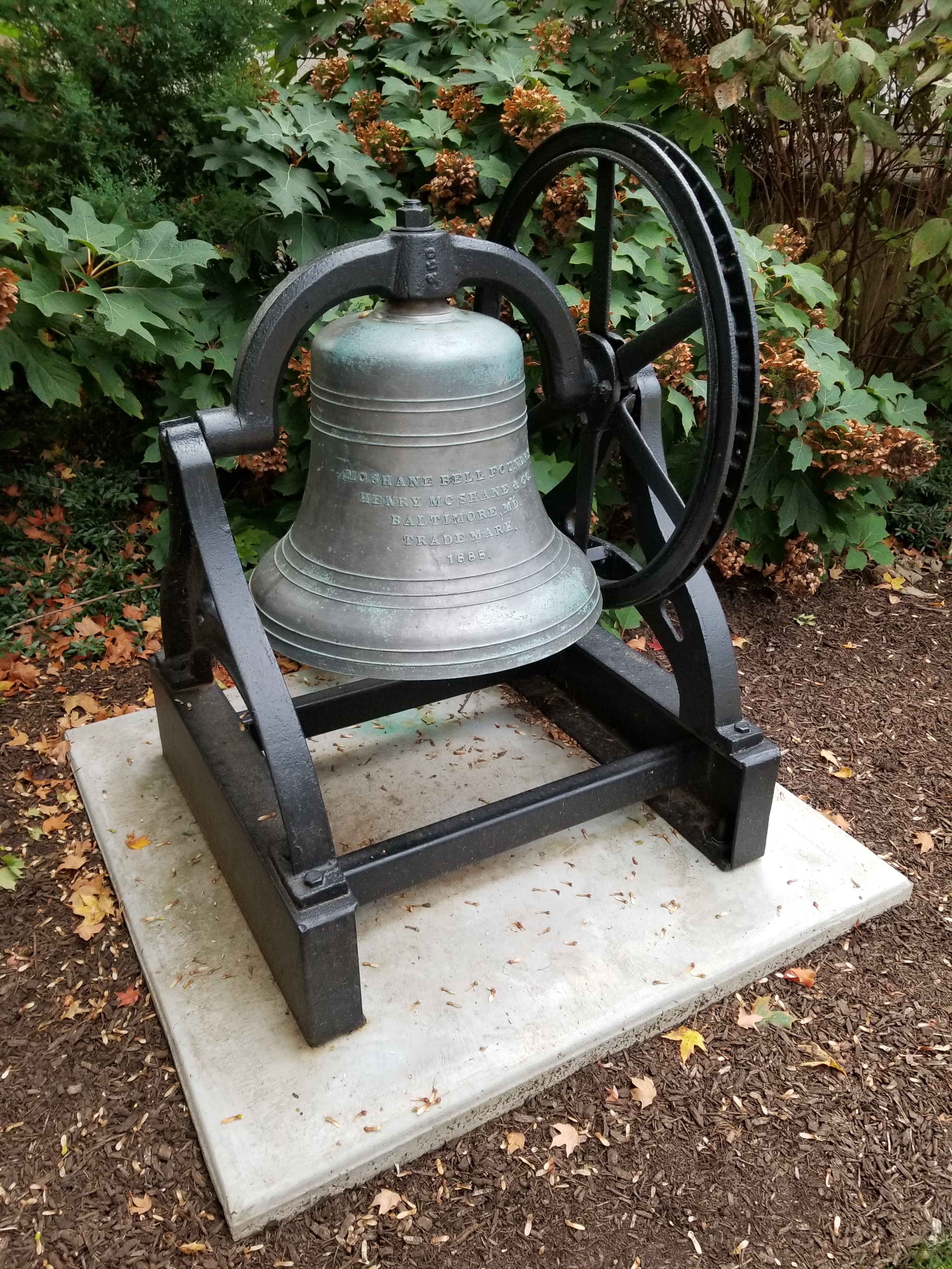 Lower Merion Academy school bell, Bala Cynwyd, Pennsylvania. An inscription on this bell states that it was made in the McShane Bell Foundry in Baltimore, Maryland in 1888. A sign on the side declares that it was rededicated in 1976.